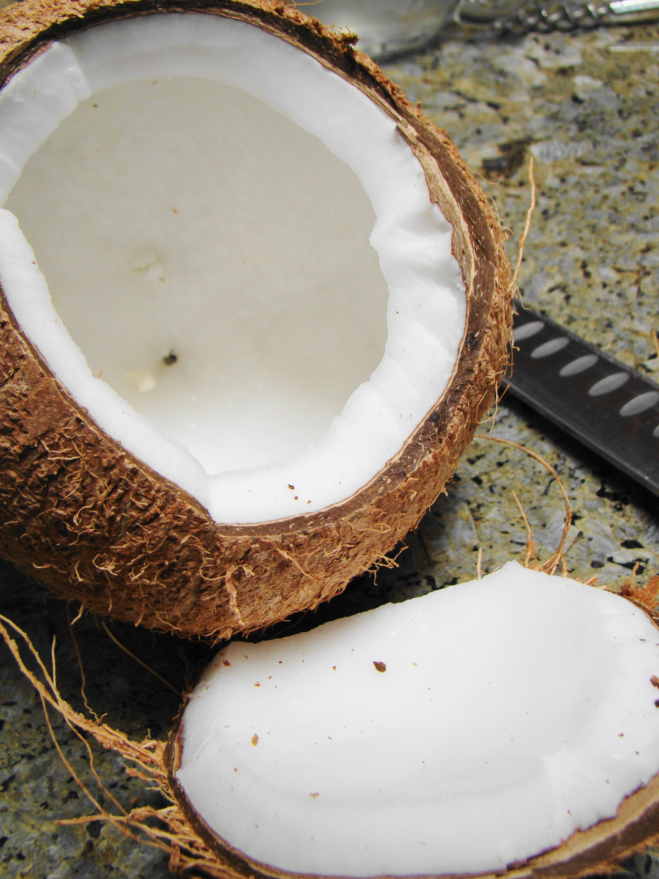 Coconut In Half